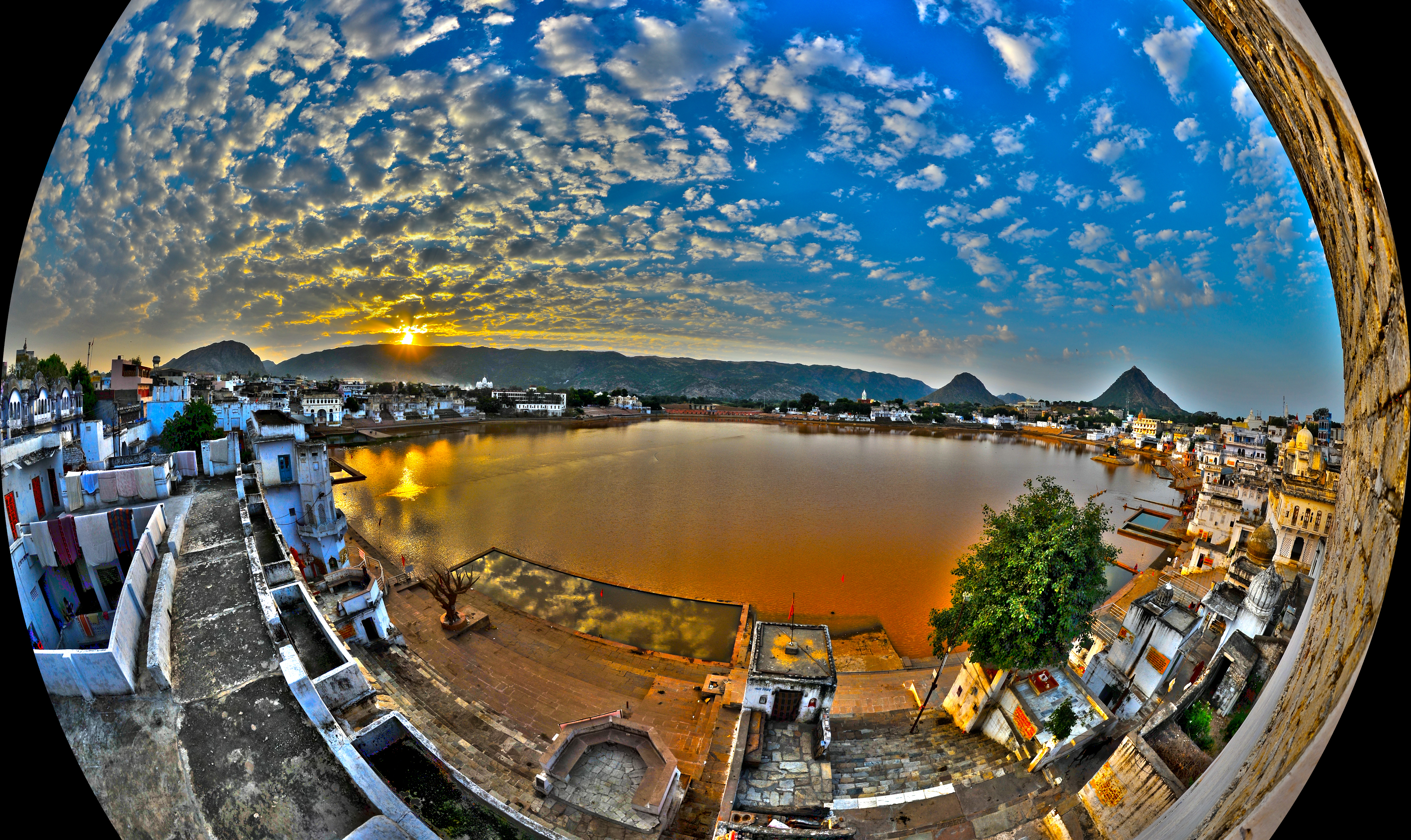 The artificial lake (Sagar) of Pushkar.